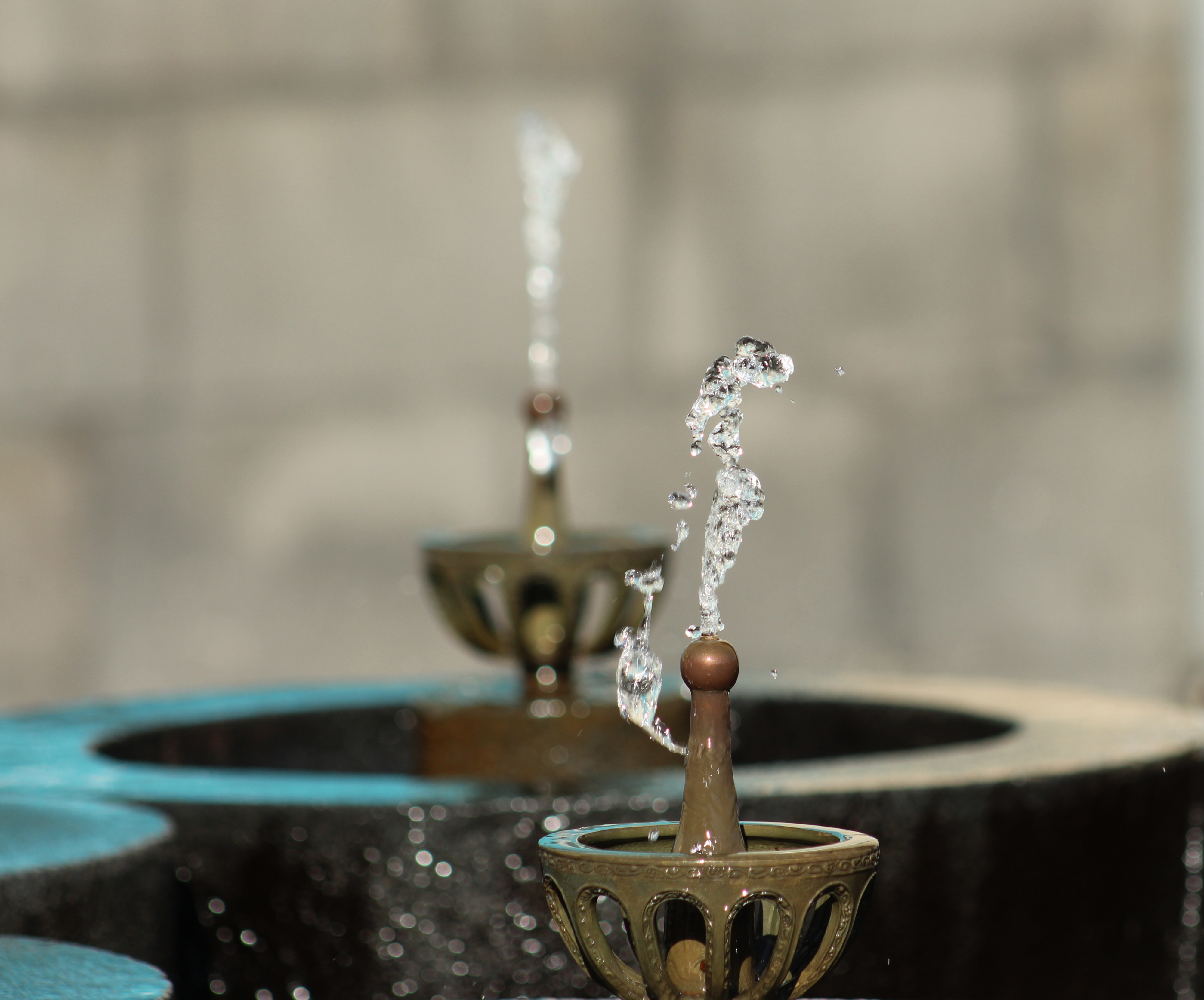 Pulpulak